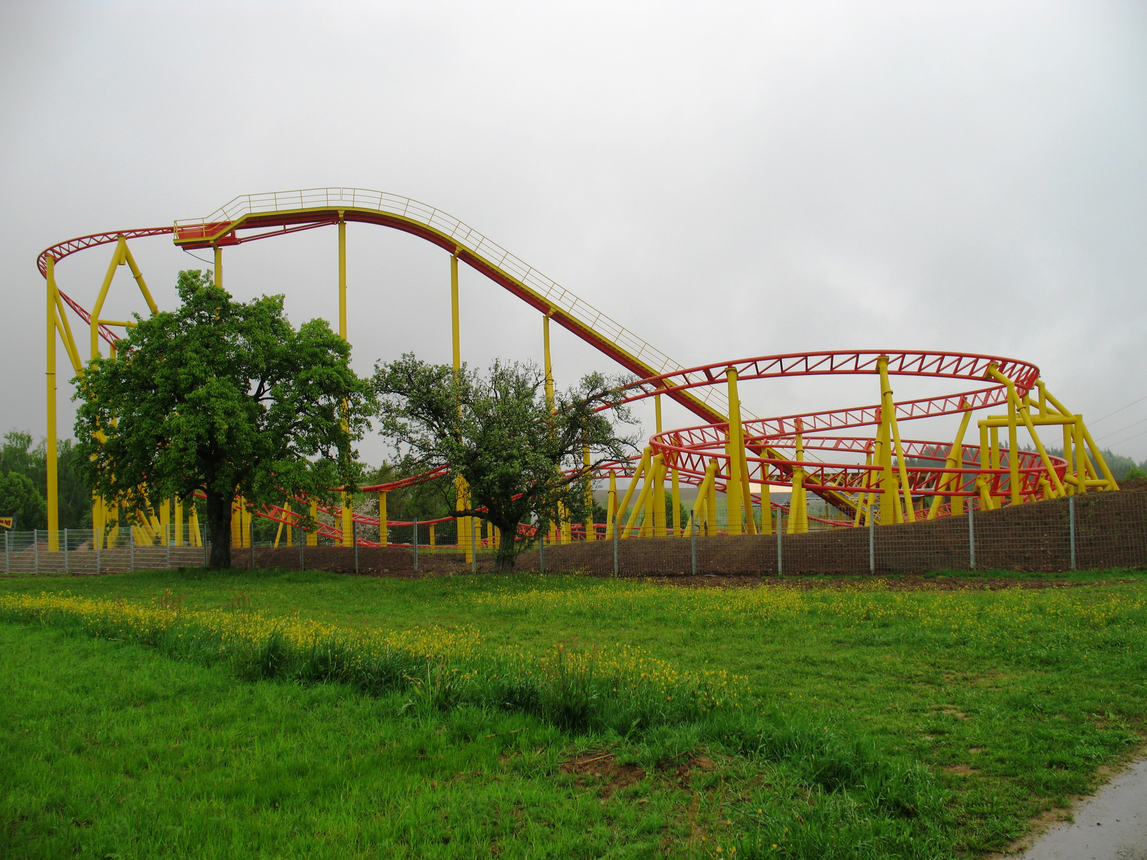 New rollercoaster at the Schwabenpark